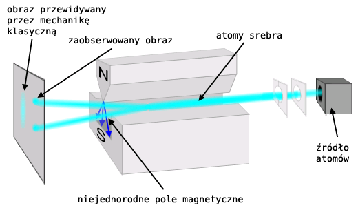 Spolszczenie Polish version of the file Stern-Gerlach experiment.PNG